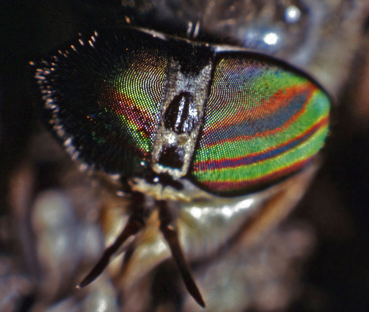 Hybomitra cf. aterrima, female. Close-up on eyes. La Thuile, Aosat, Italy